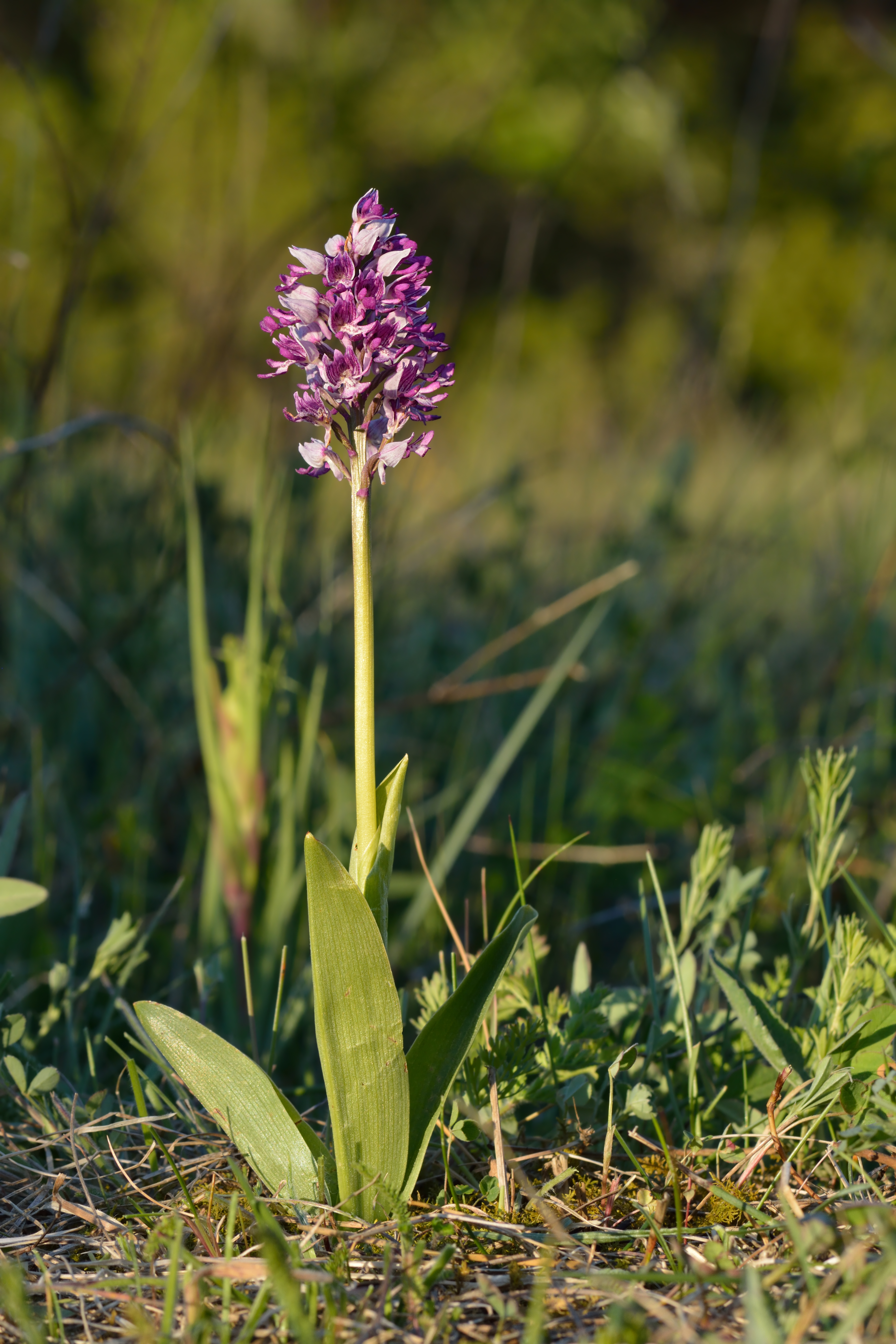 The military orchid (Orchis militaris). Alvar (landform) in Keila, Northwestern Estonia.